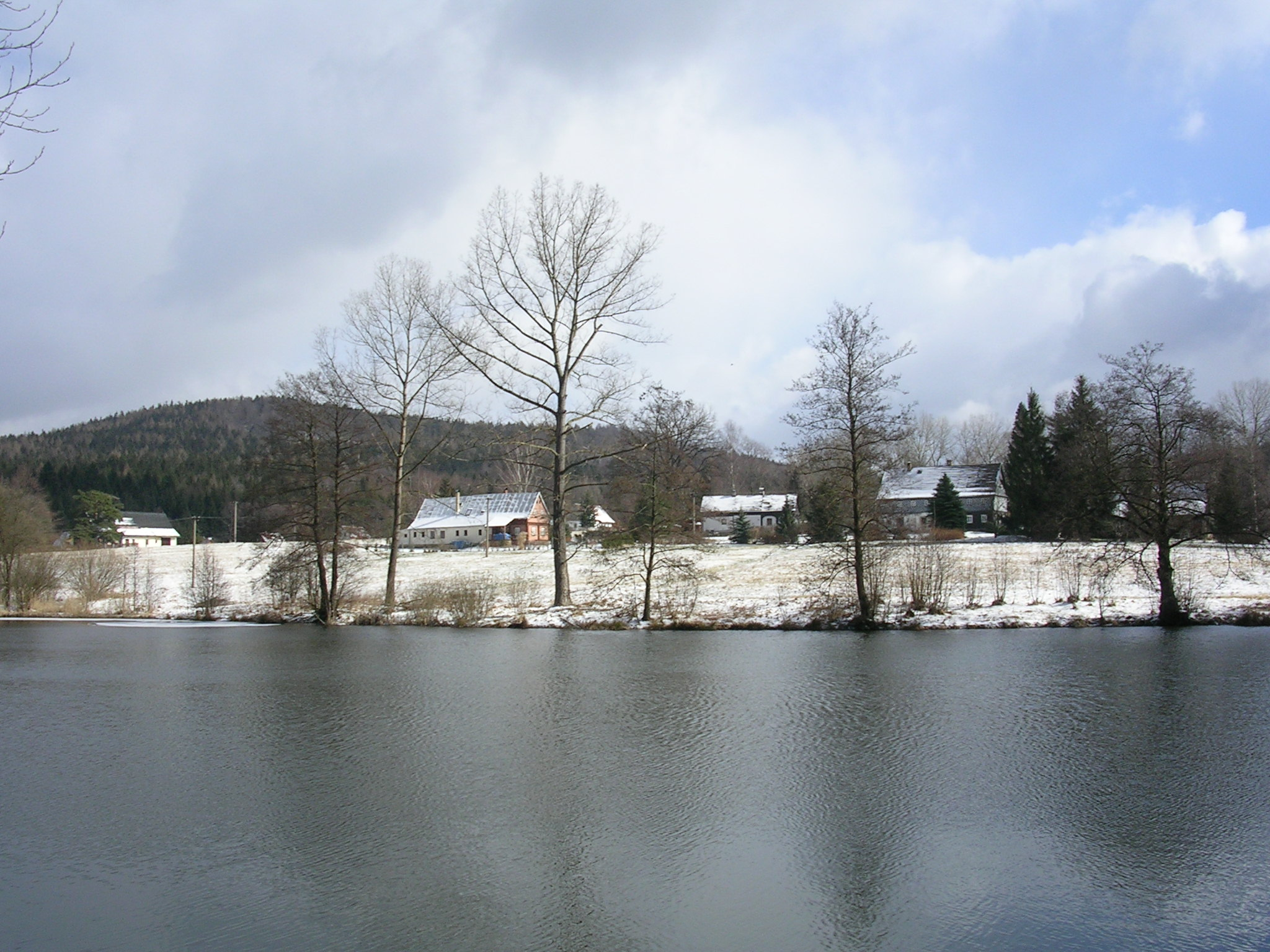 Doubice, Ústí nad Labem Region, the Czech Republic.